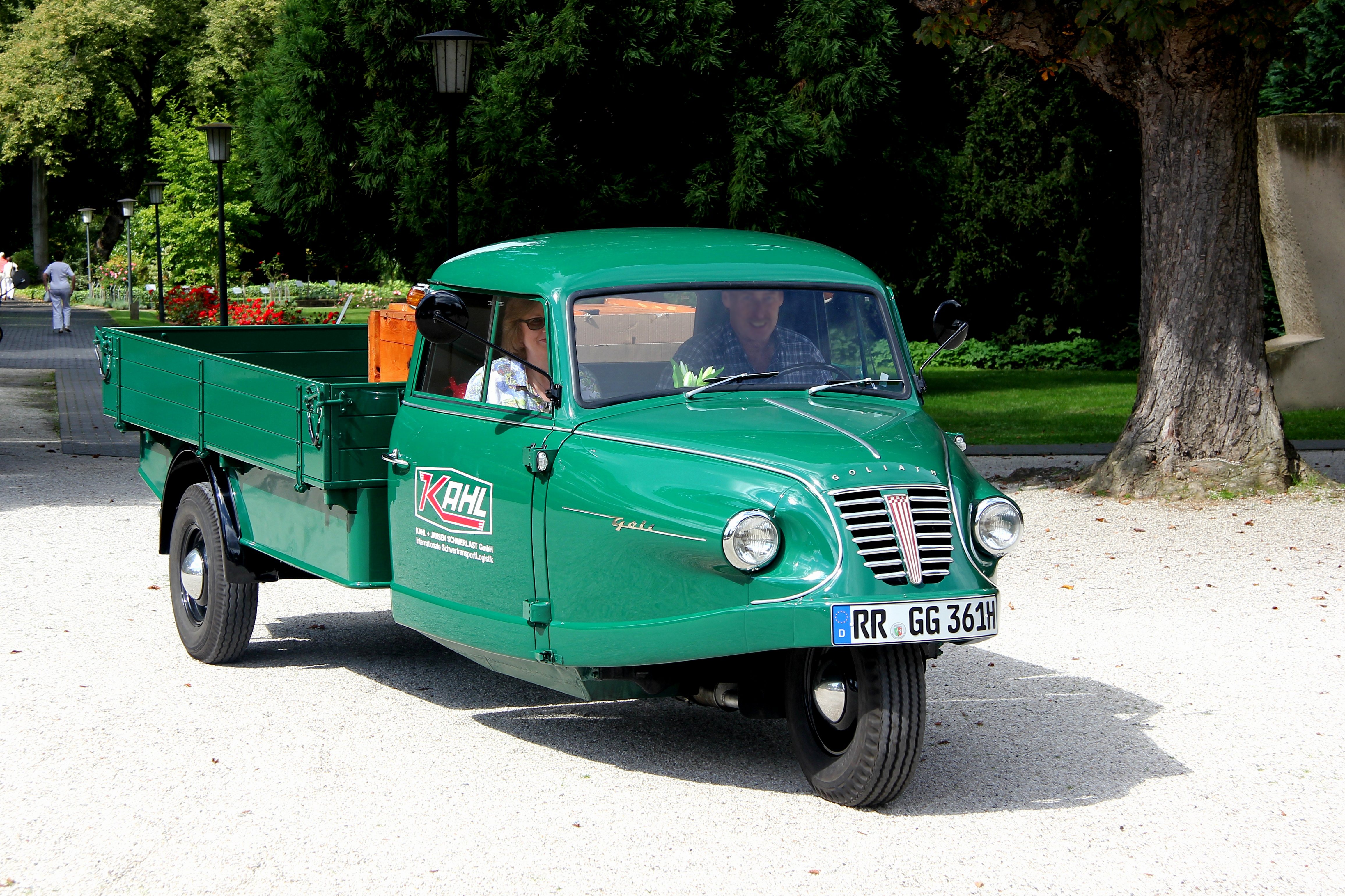 Goliath Goli, 465 cc two-cylinder two-stroke engine, 15 hp at 3750 rpm. 9904 units built between 1955 and 1961.